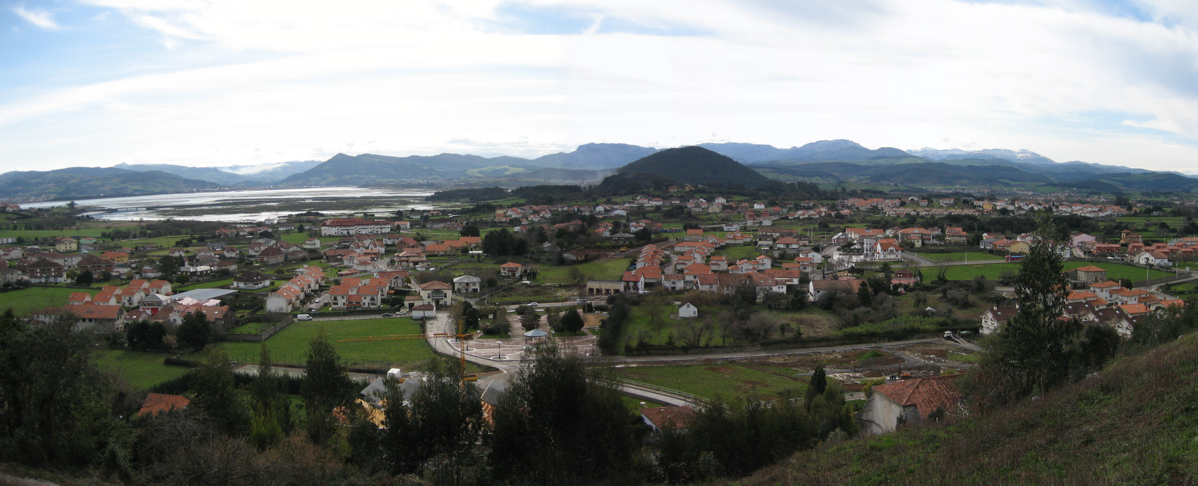 Argoños, village in Cantabria (Spain)